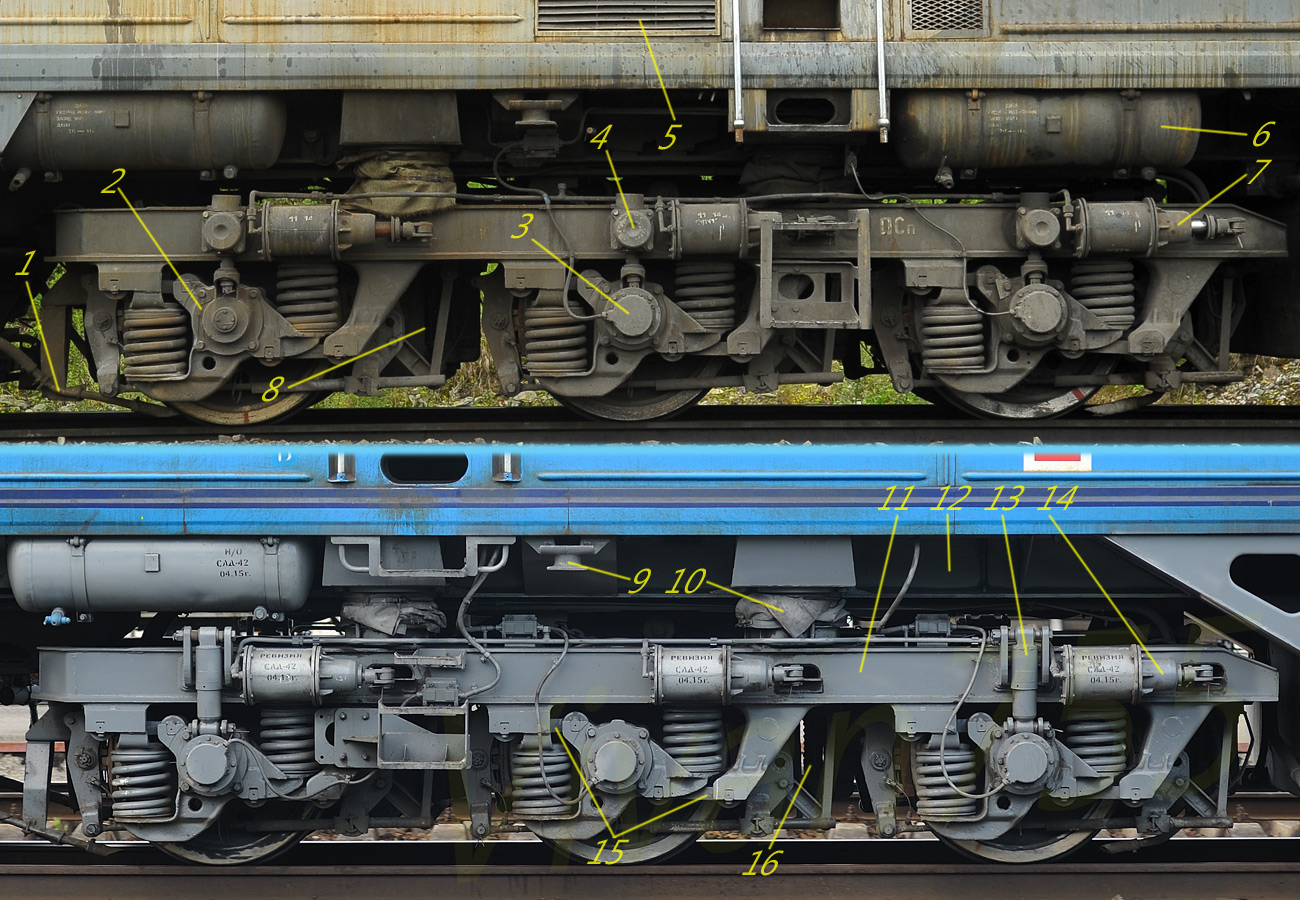 Wheel trucks of russian diesel locomotives 3TE10UK and 2TE116U. 1 — sander, 2 — journal-box, 3 — CLUB-U speed sensor, 4 — friction shock absorber, 5 — gills of main generator ventilator, 6 — main recevoir, 7 — brake cylinder (applied), 8 — traction motor, 9 — lifting point, 10 — side bearer, 11 — wheel truck cadre, 12 — locomotive cadre, 13 — hydraulic shock absorber, 14 — brake cylinder (released), 15 — links, 16 — traction motor support.